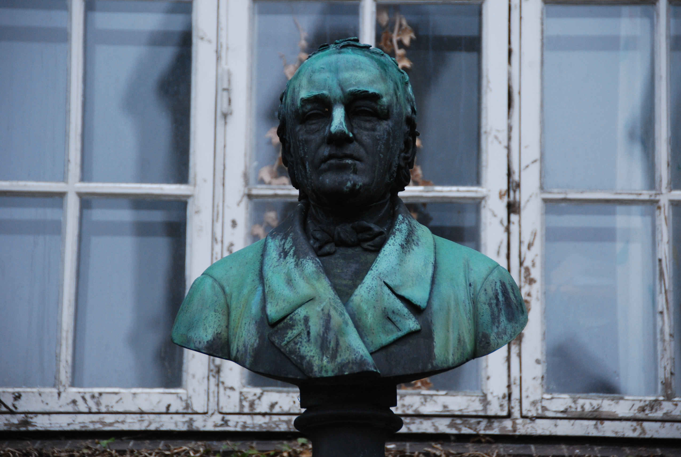 The Latin Garden in Viborg, Denmark